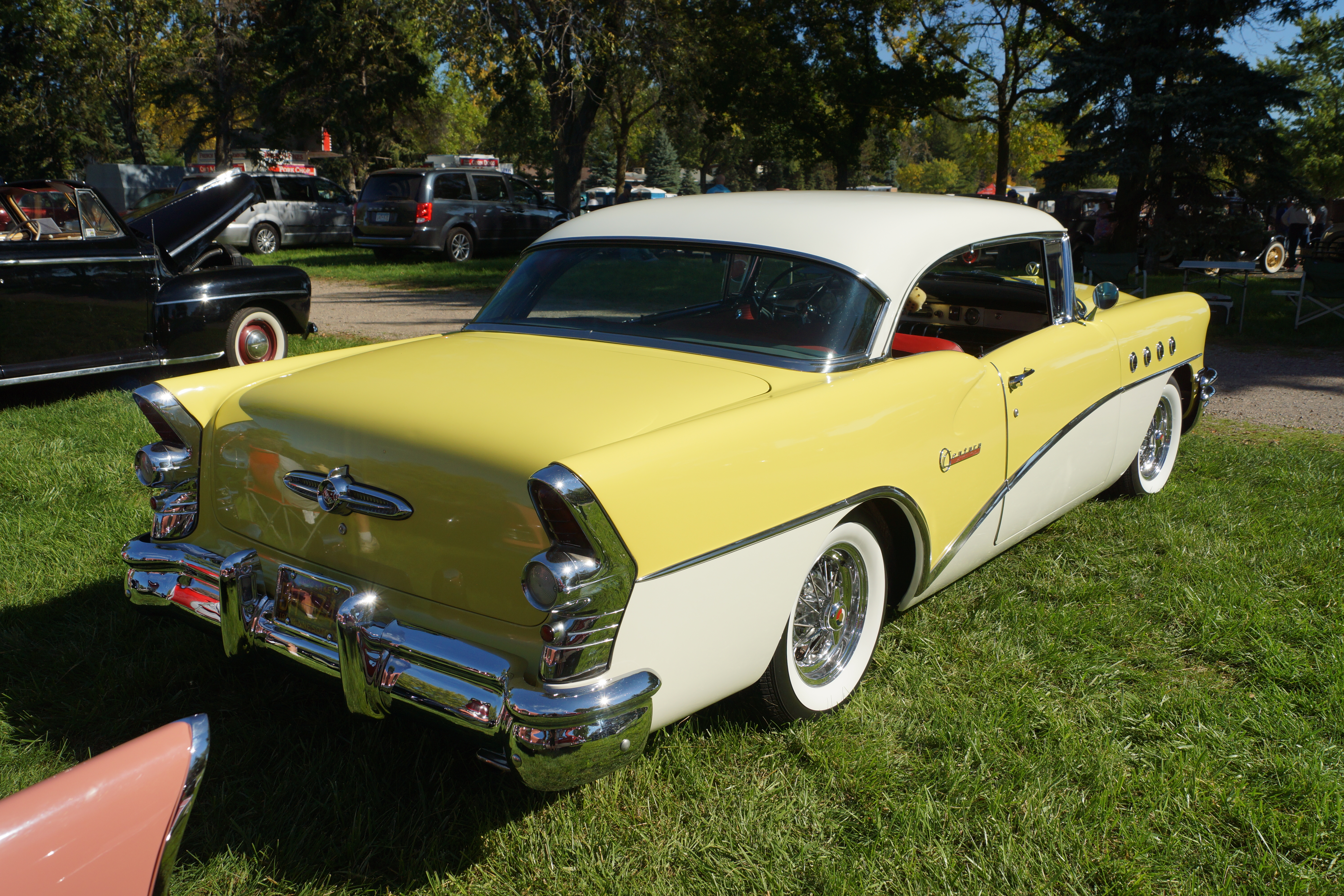 46th Annual Midwest Fall Swapmeet & Car Show Sponsored by the Capitol City Chapter of the AACA and the Twin Cities Model "A" Ford Club Minnesota State Fairgrounds St. Paul, Minnesota October 2016 Click here for more car pictures at my Flickr site.